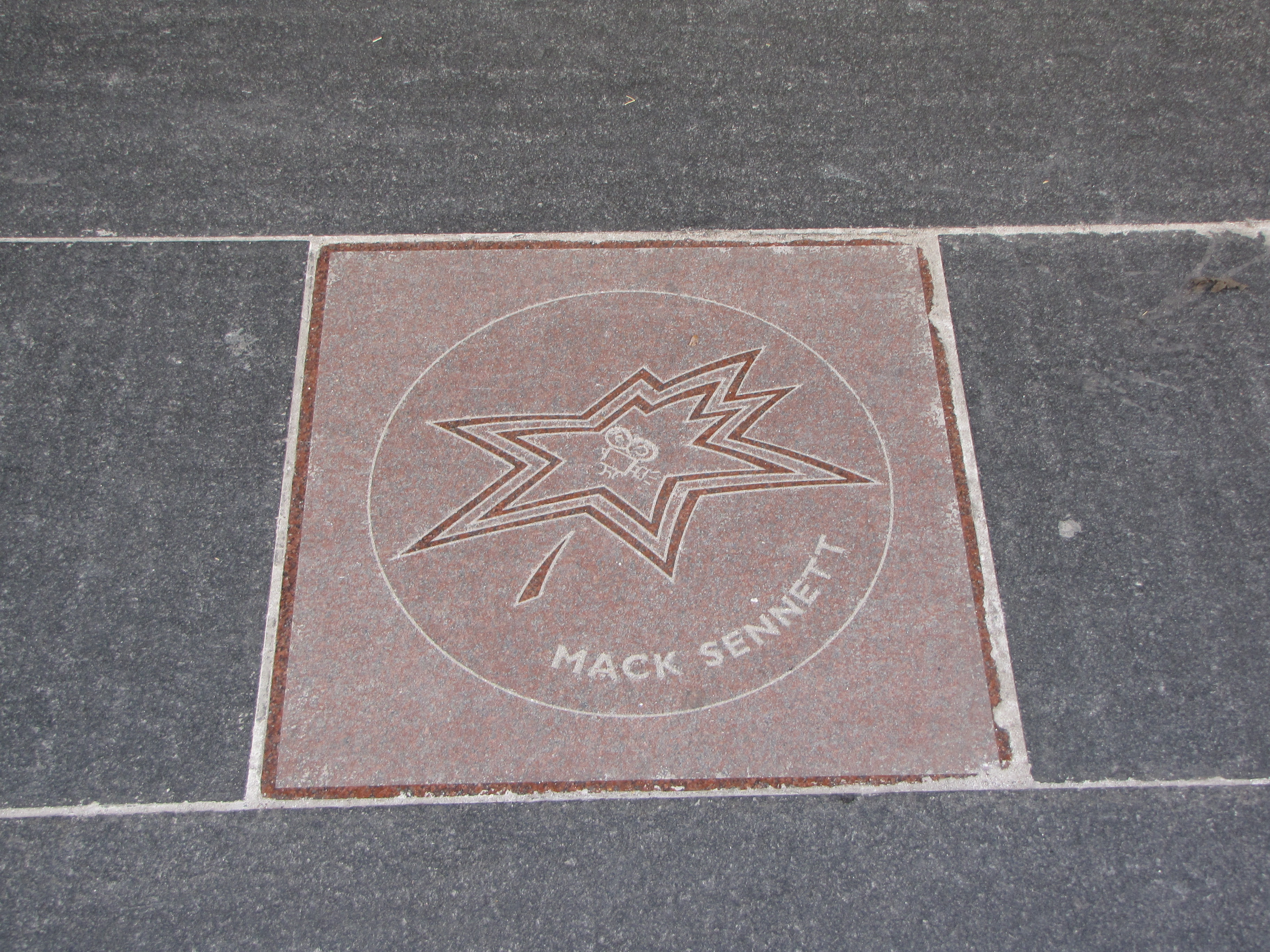 Mack Sennett's star on Canada's Walk of Fame